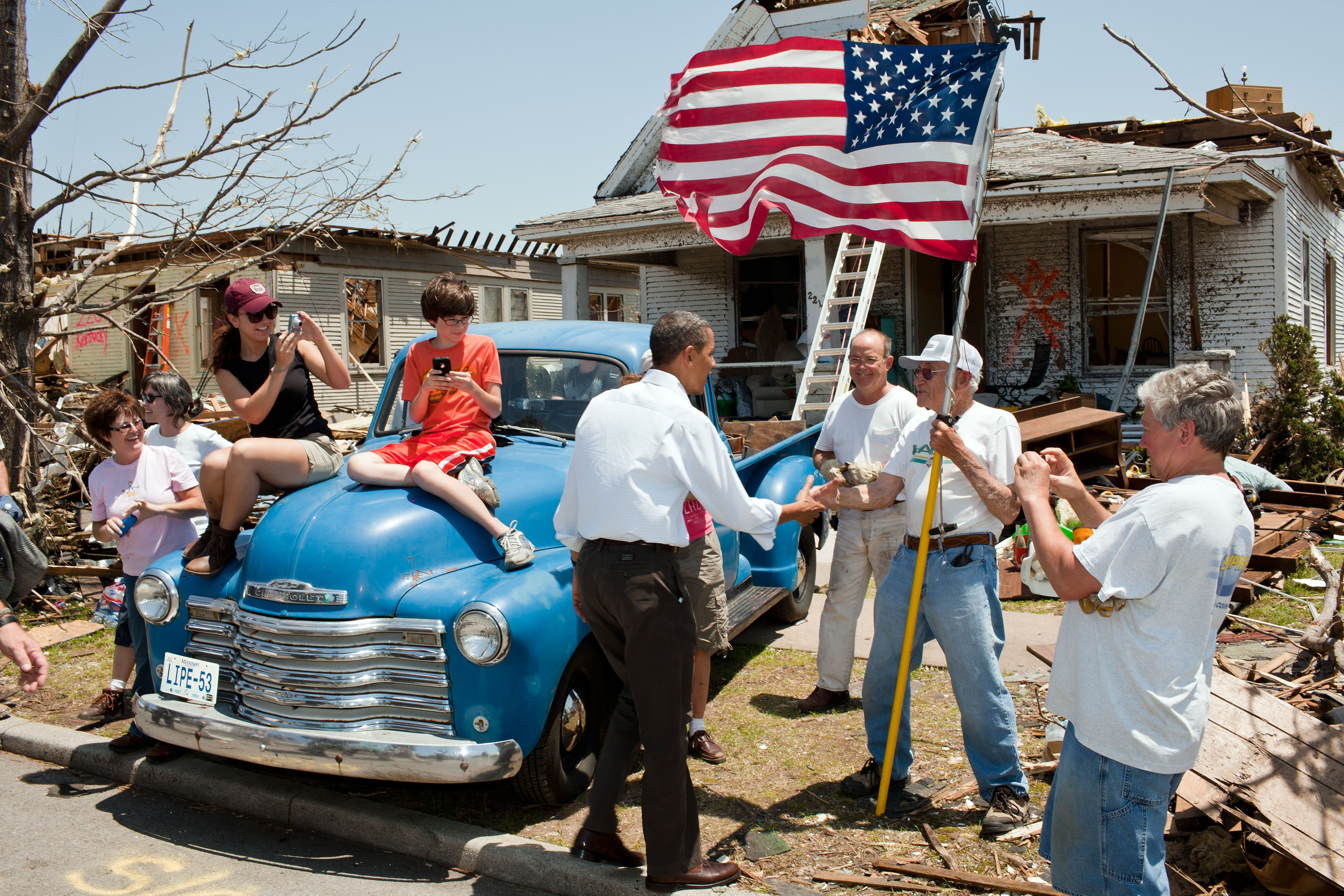 President Barack Obama greets Hugh Hills, 85, in front of his home in Joplin, Mo., May 29, 2011. Hills hid in a closet during the tornado, which destroyed the second floor and half of the first floor of his house.